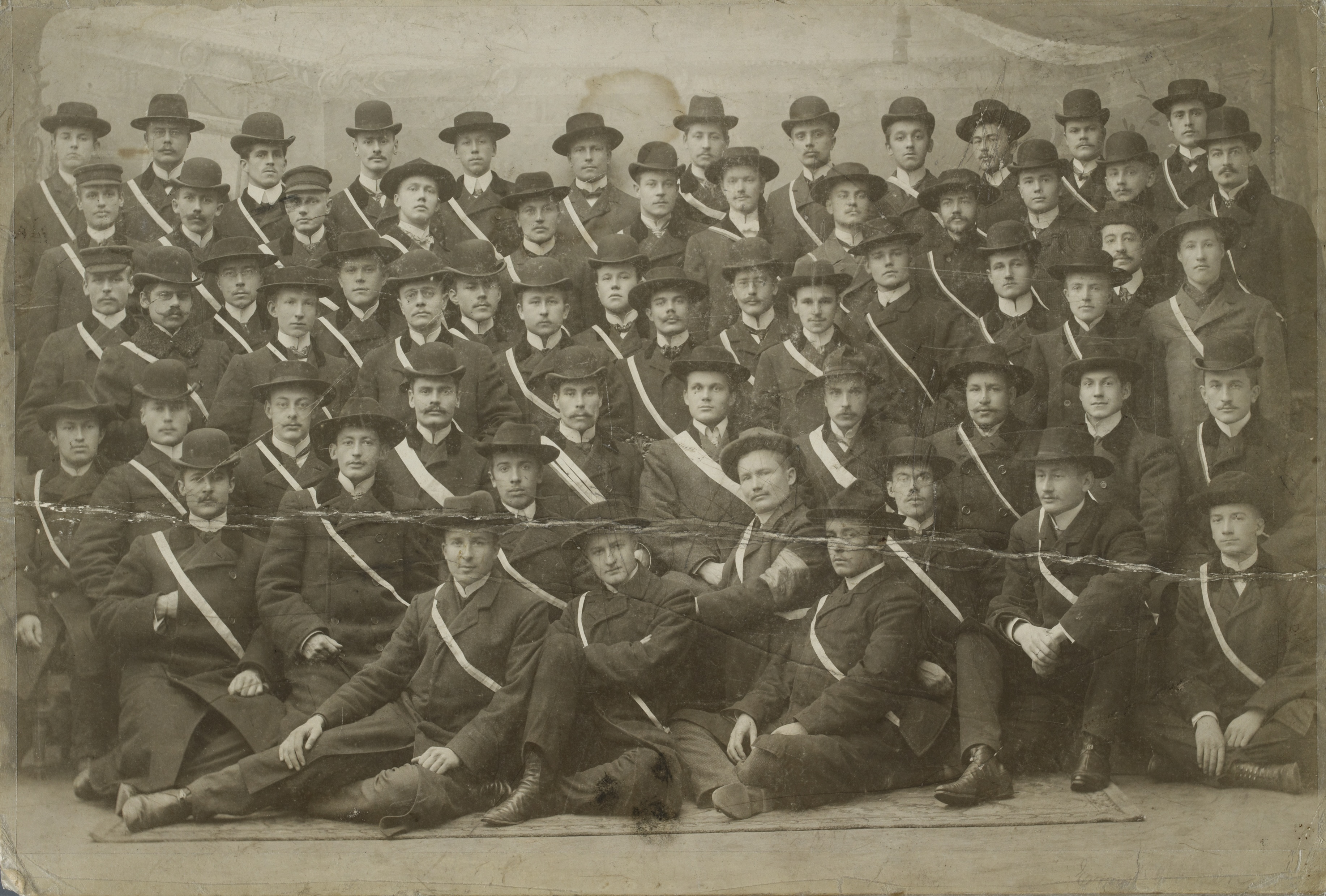 Protection Guard of the Western Finnish Student Nation of the University of Helsinki during the 1905 General Strike.